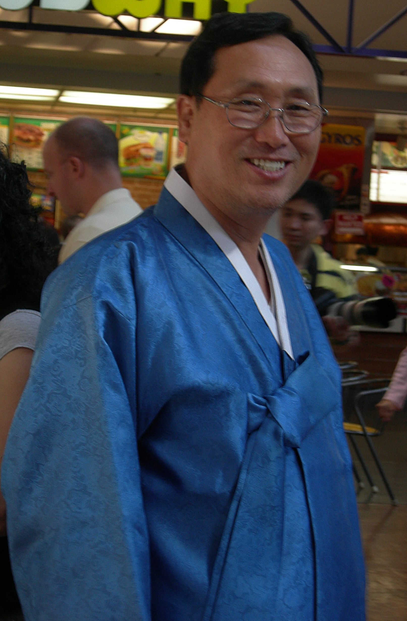 Man in traditional garment, Korean Cultural Celebration, part of the Festál series of ethnic events at Seattle Center, Seattle, Washington, U.S.